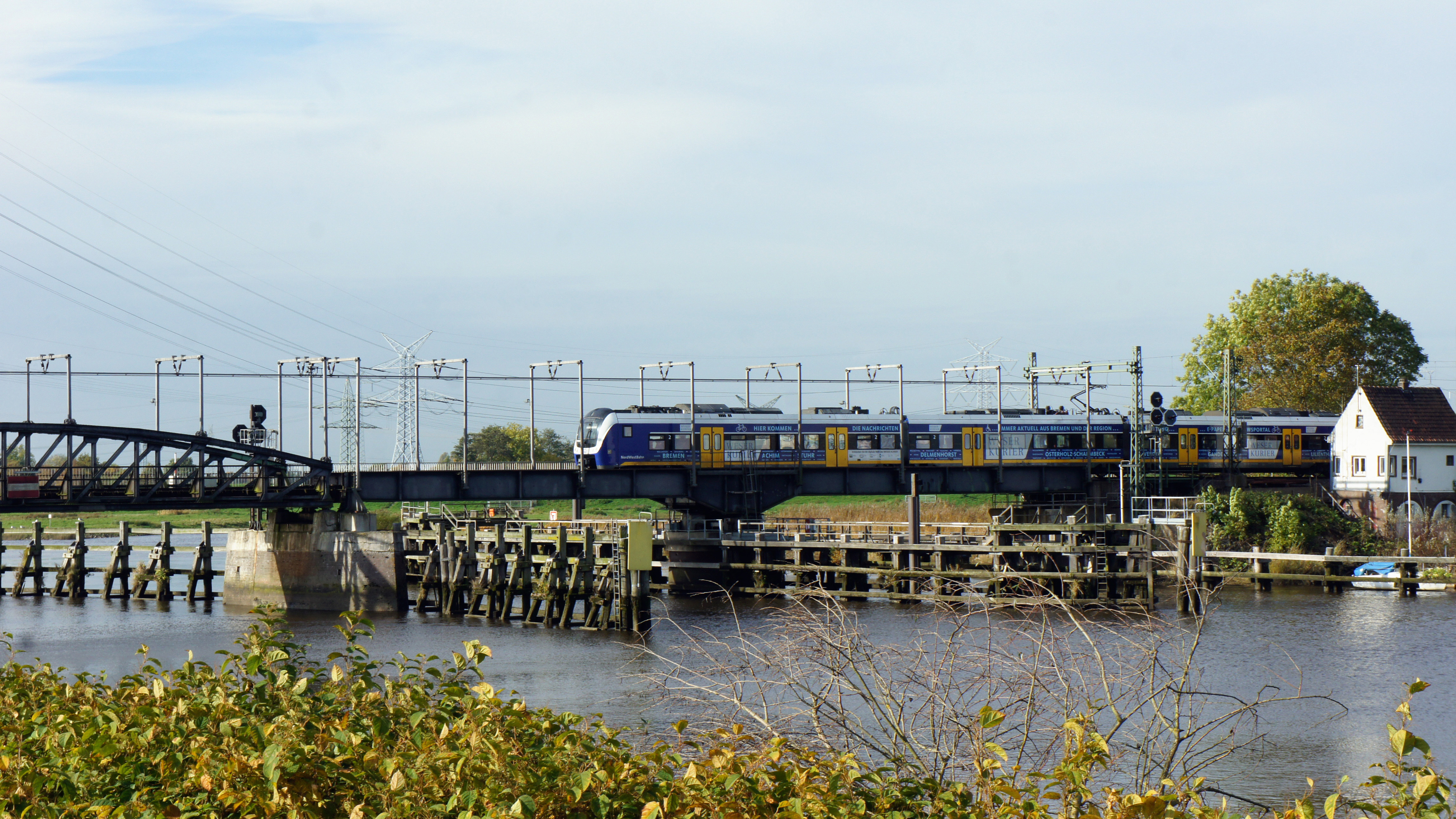 Railway swing Bridge over the Hunte near Elsfleth-Orth with a ET440 NordWestBahn